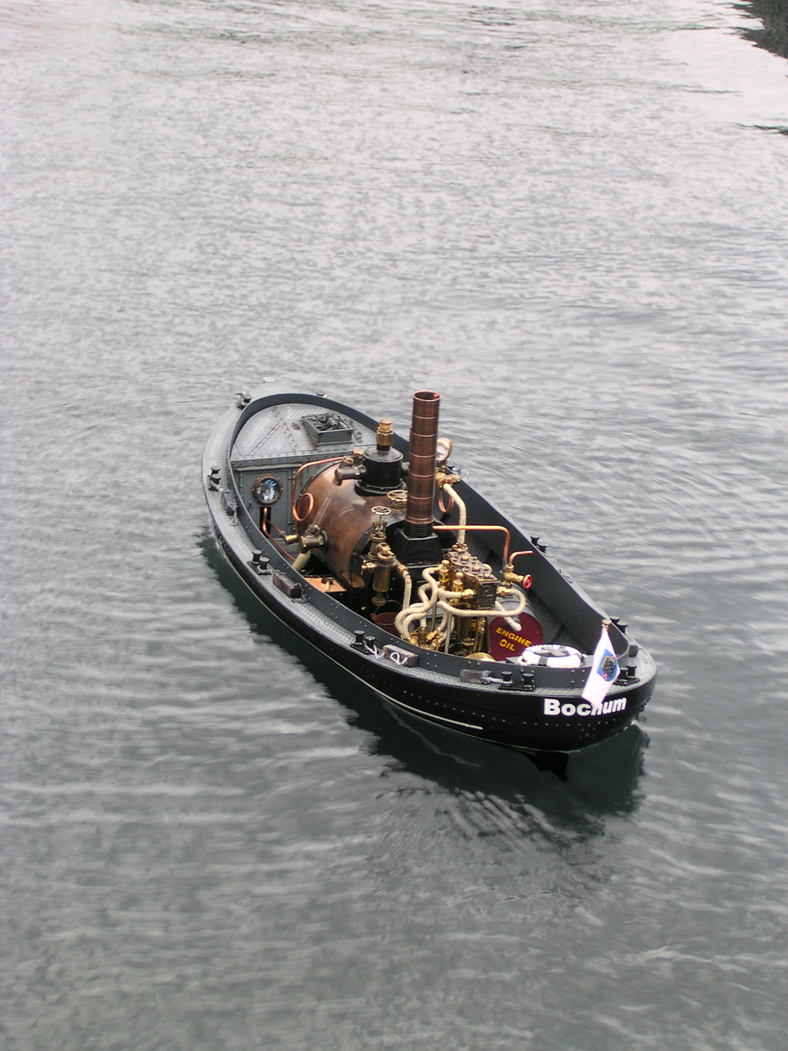 5th steam festival in Bochum, Germany 2007, steam ship model